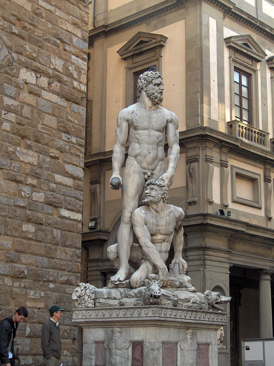 "Hercules and Cacus" by Baccio Bandinelli (1525-34); Piazza della Signoria, Florence, Italy "Hercules and Cacus" by Baccio Bandinelli (1525-34); Piazza della Signoria, Florence, Italy.